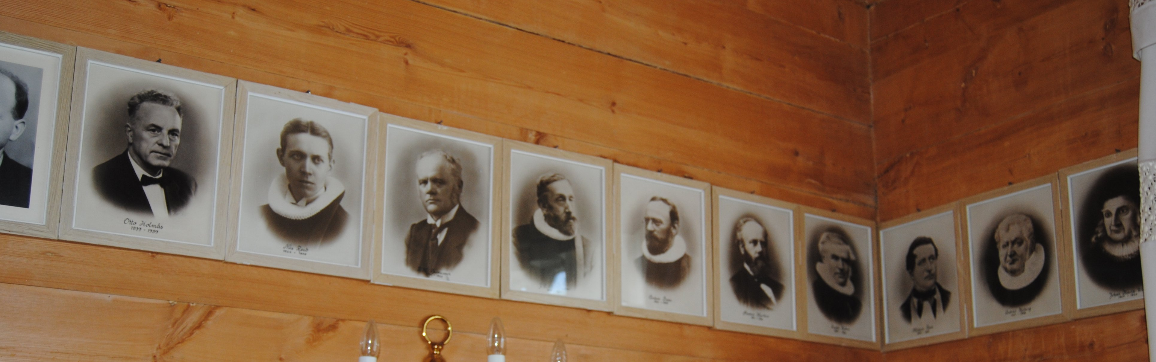 Detail from the photographs of old priests in Manger church, Norway. The picture is from the church's priestal sacristy.